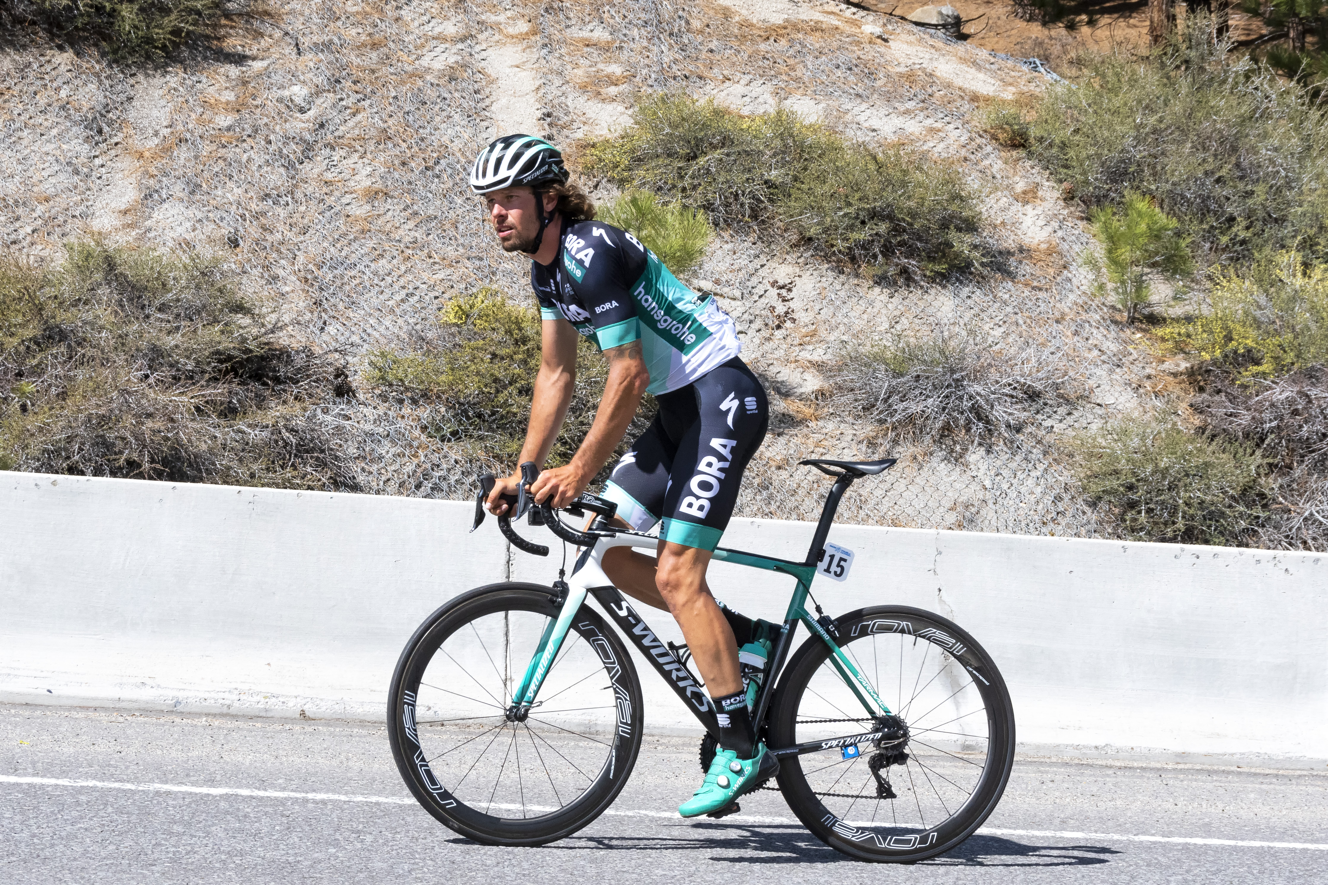 Amgen Tour of California 2018 Stage 6 from Folsom to South Lake Tahoe